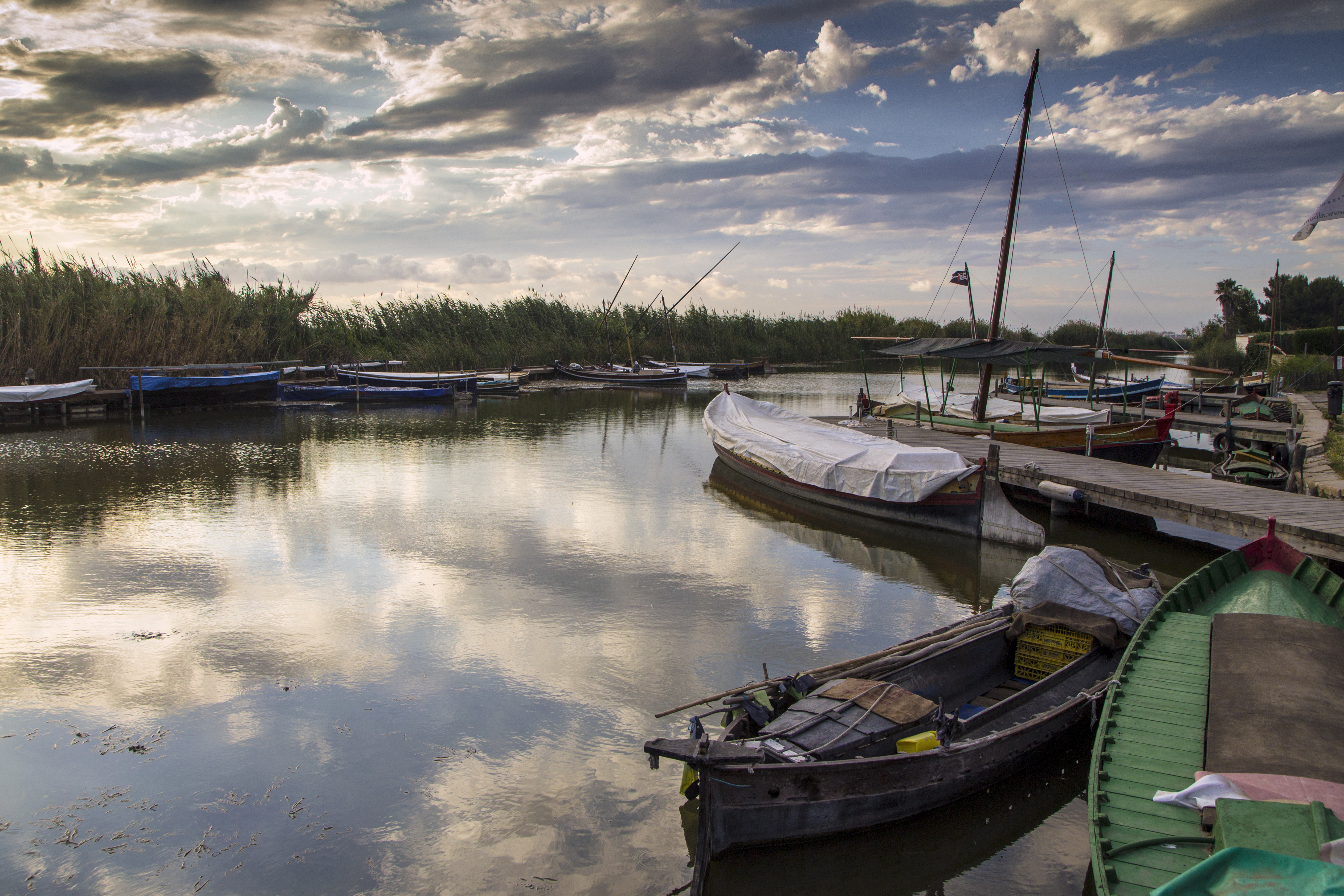 L´ALBUFERA 08 This is a photography of a Special Area of Conservation in Spain with the ID: ES0000023. Natura2000 entry, EEA entry